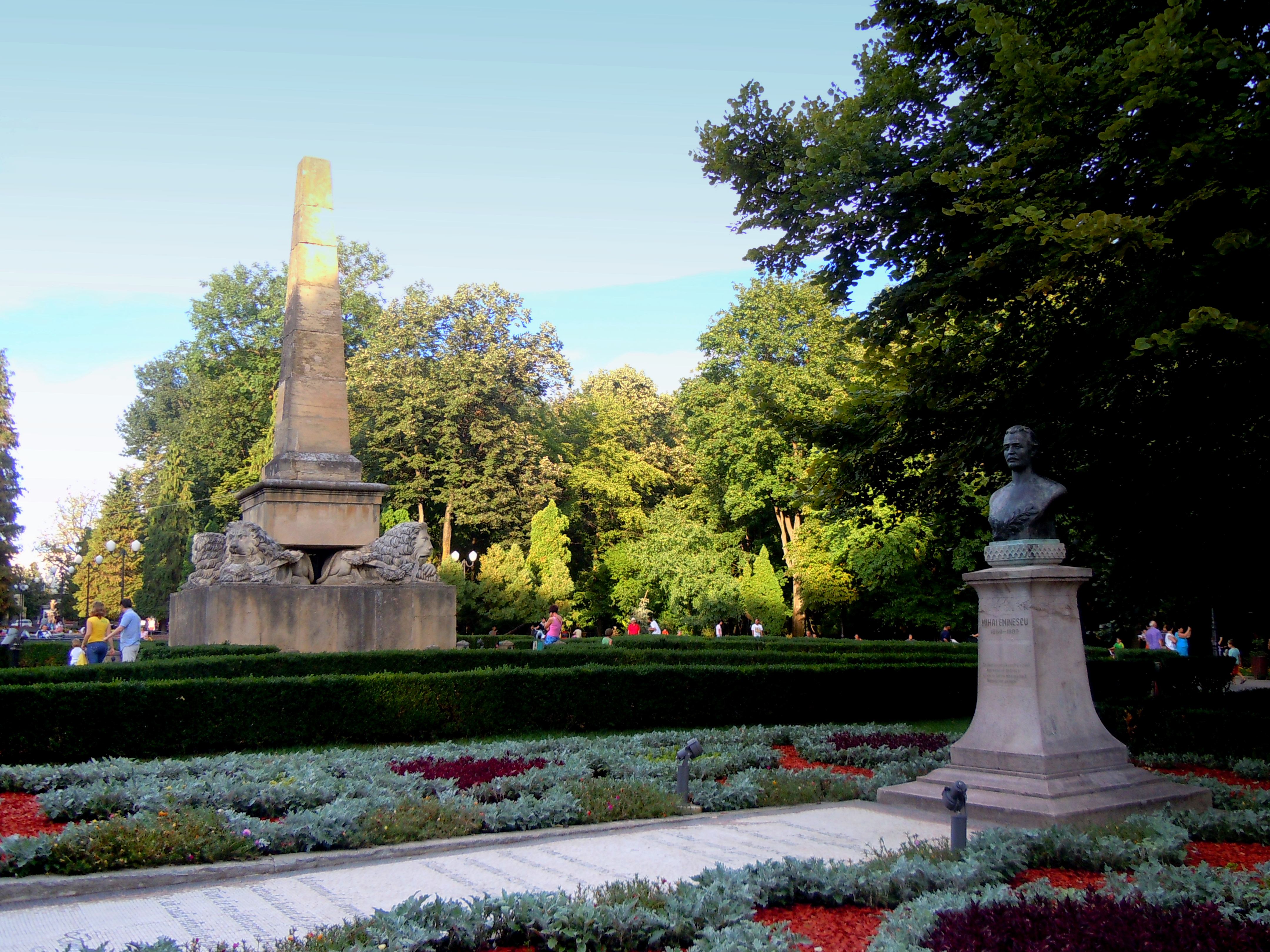 Iaşi , RomaniaRomână: Bustul lui Mihai Eminescu în Grădina Copou , Iaşi , România